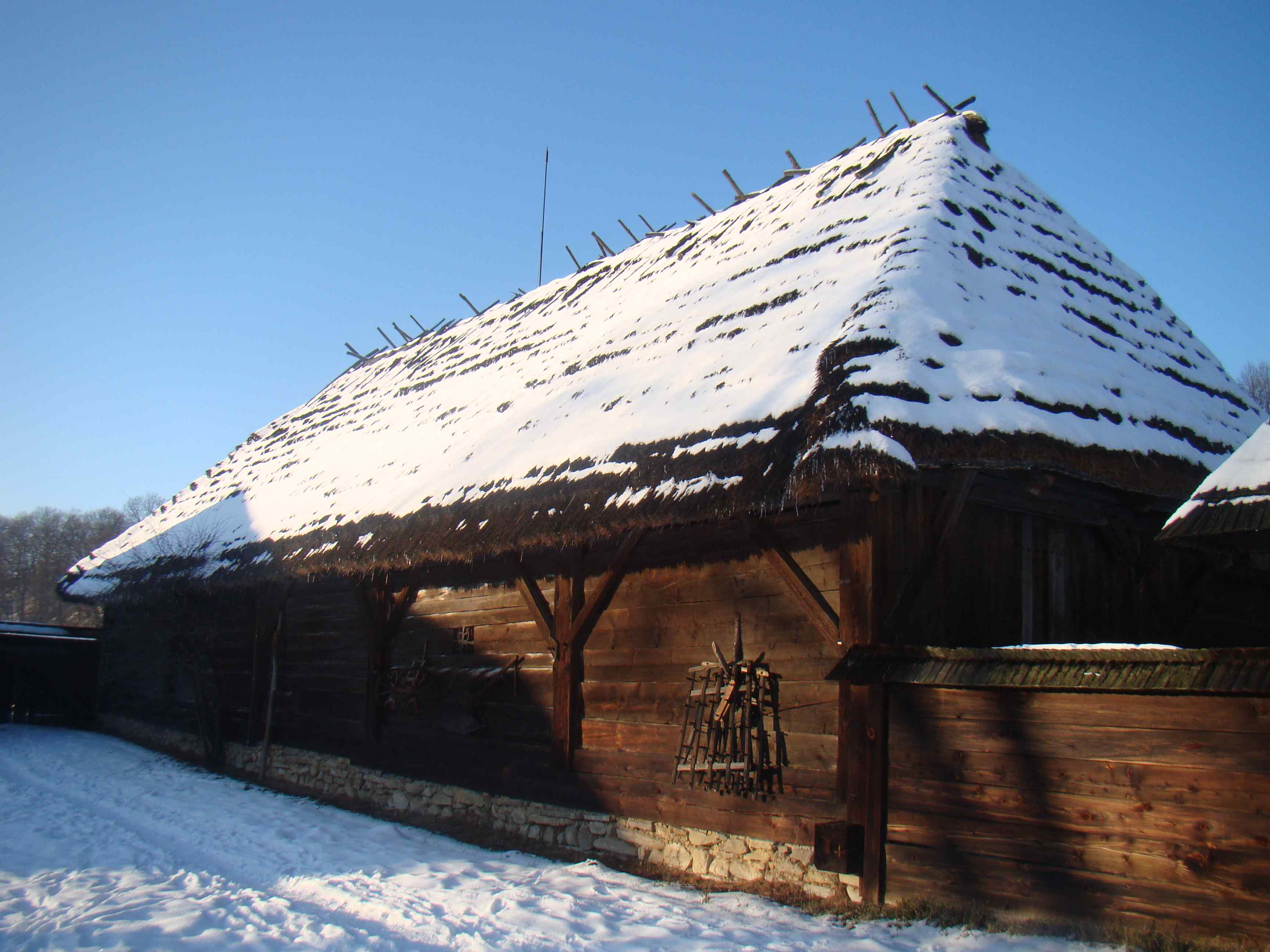 Logs house.